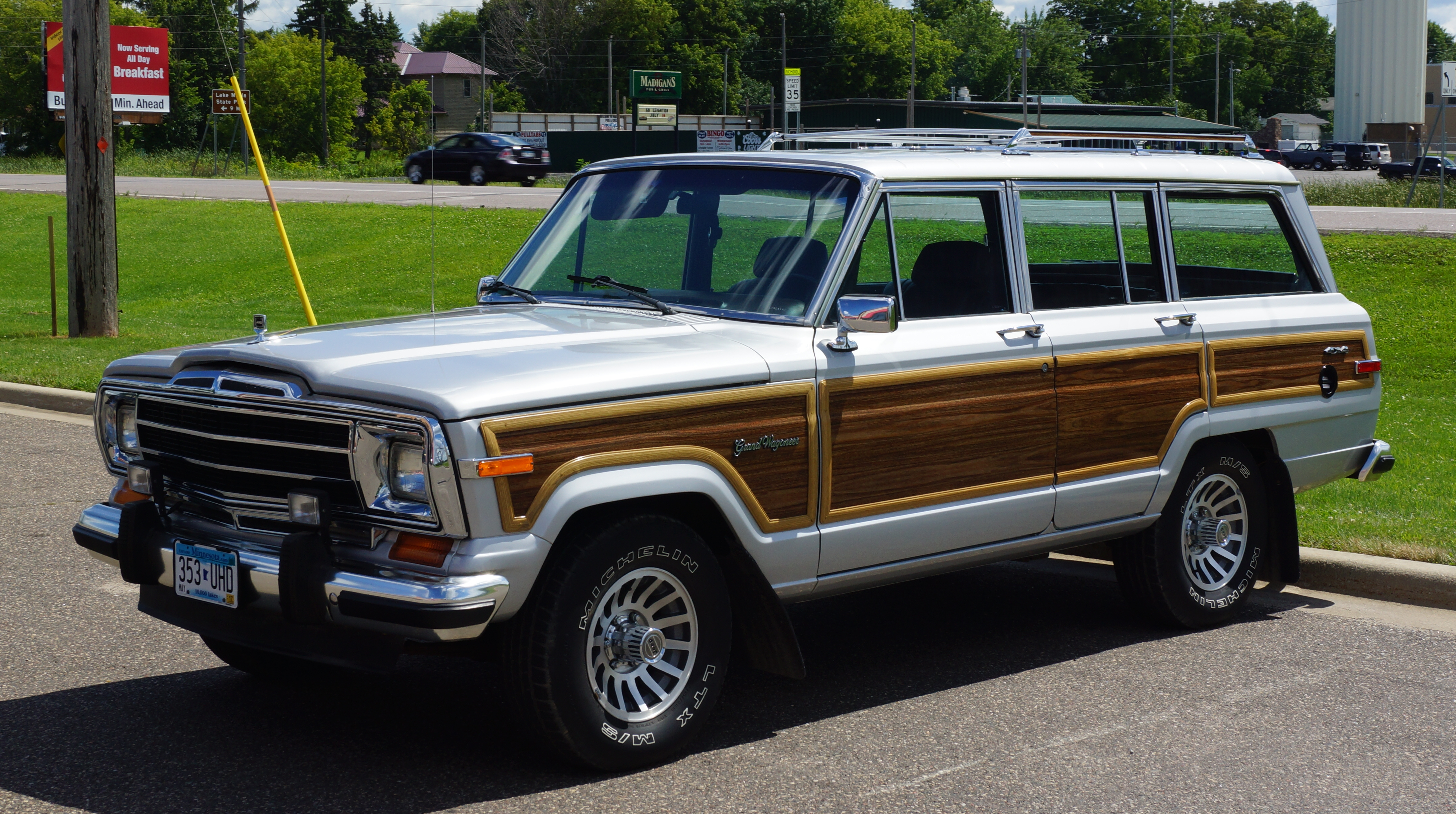 Click here for more car pictures at my Flickr site.